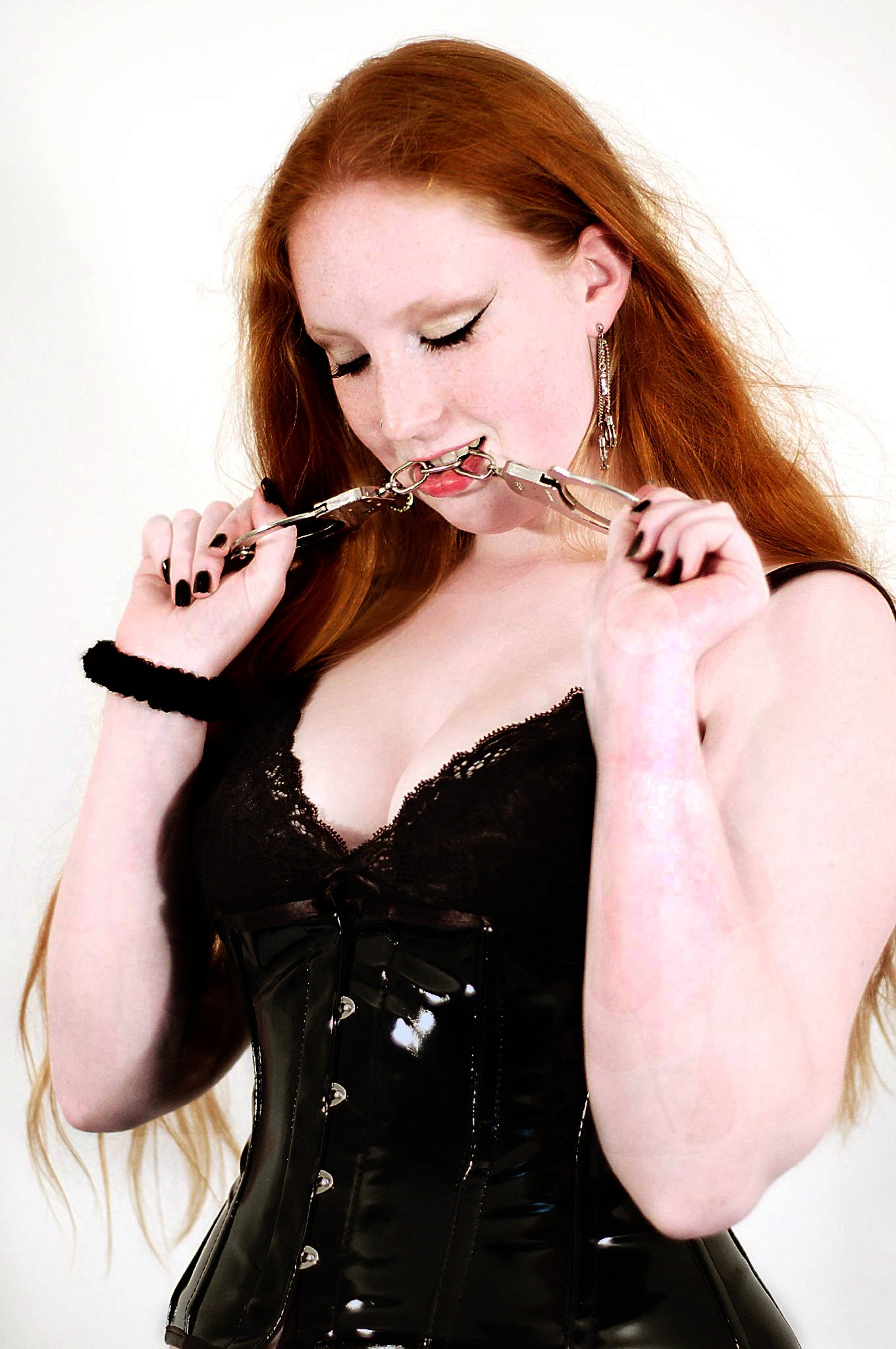 Improved lighting and tone.